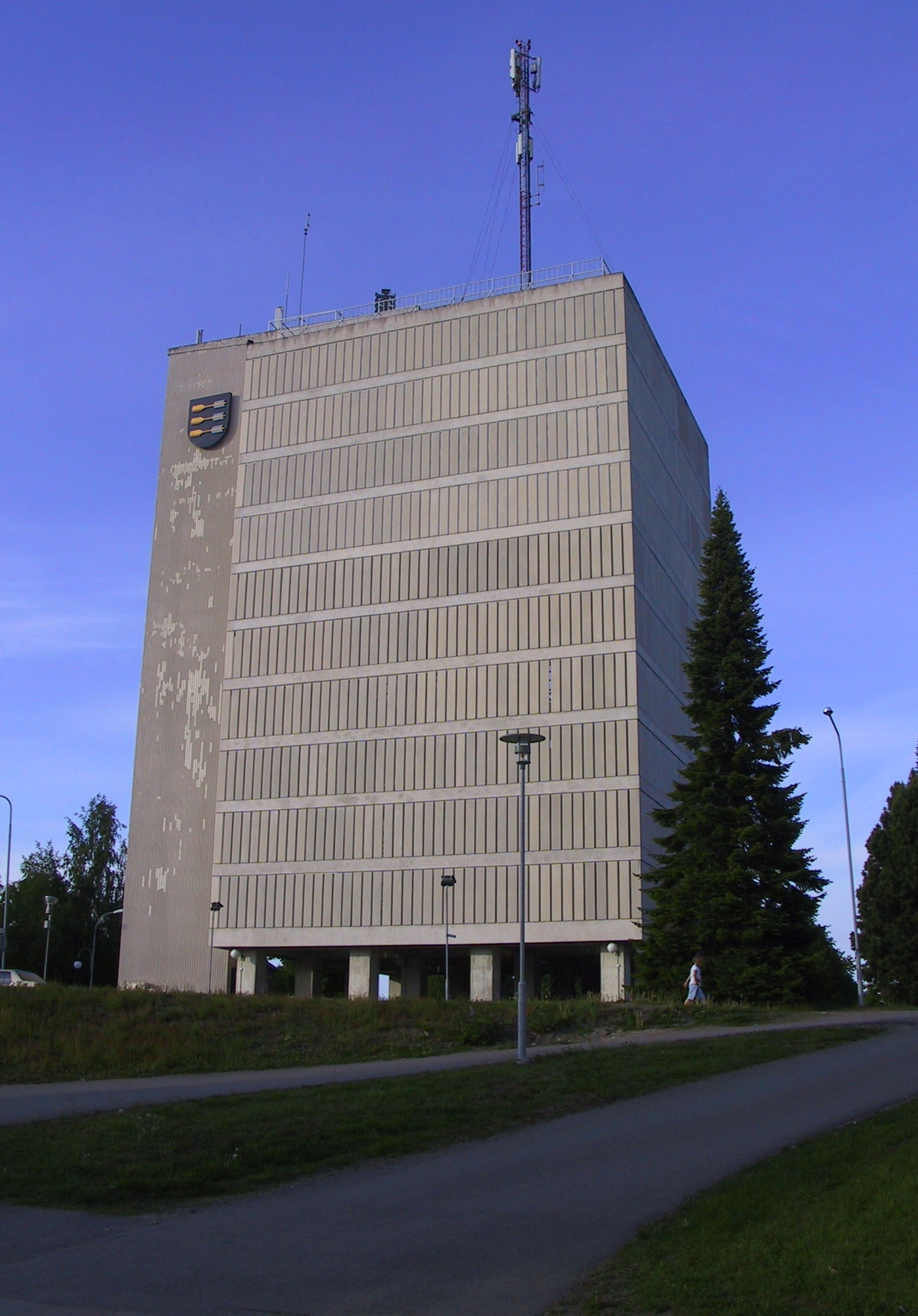 The Pieksamaki water tower with the current coat of arms of the city, Pieksamaki, Finland. Architech Aarne Ervi. Completed 1956.